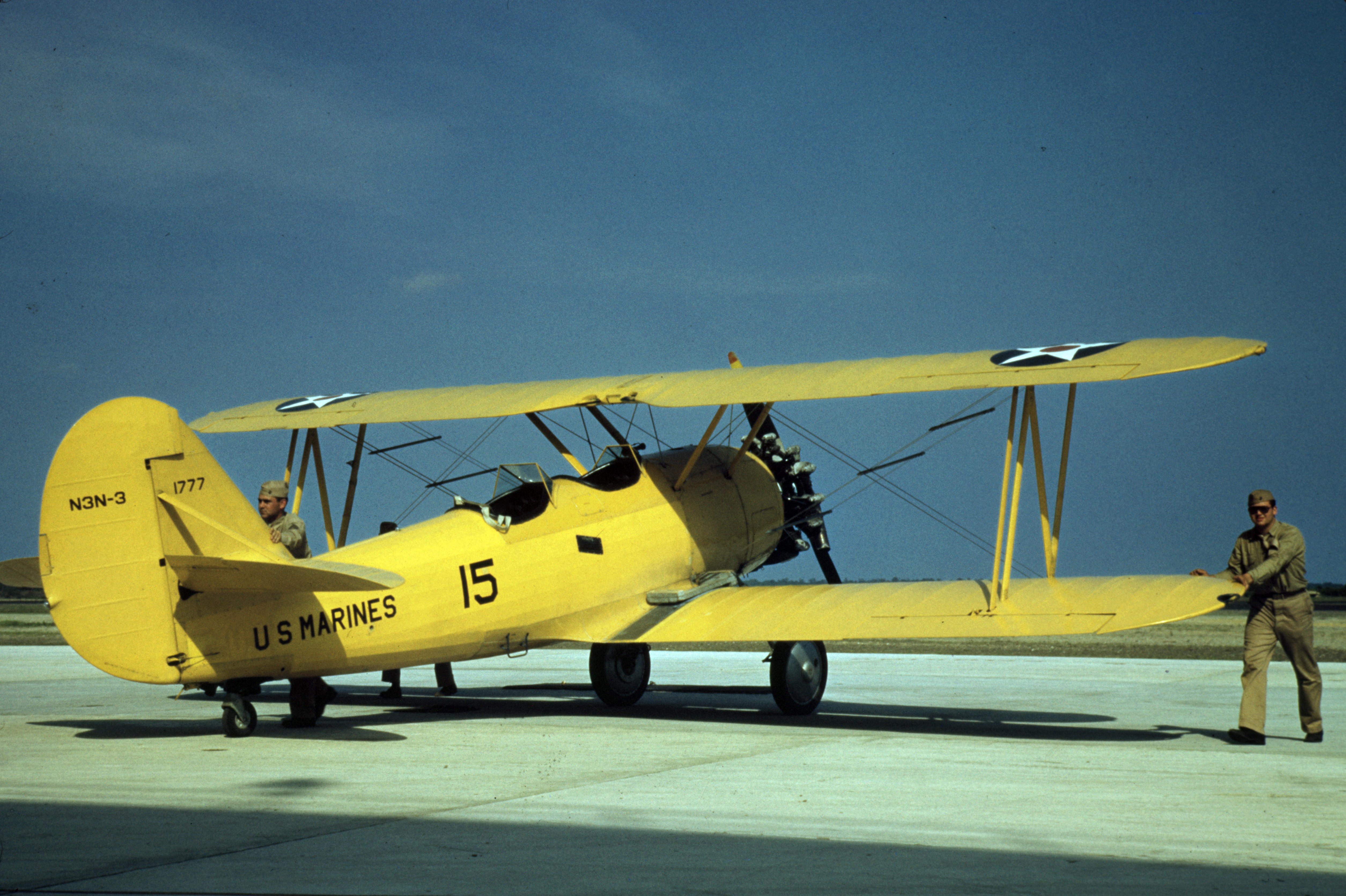 A U.S. Marine Corps Naval Aircraft Factory N3N-3 Canary (BuNo 1777) at Parris Island, South Carolina (USA), in May 1942. The N3Ns were used to tow Schweizer LNS-1 gliders of the Marine glider program.